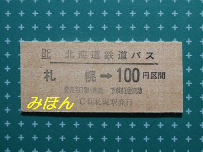 JR Hokkaido Bus Ticket